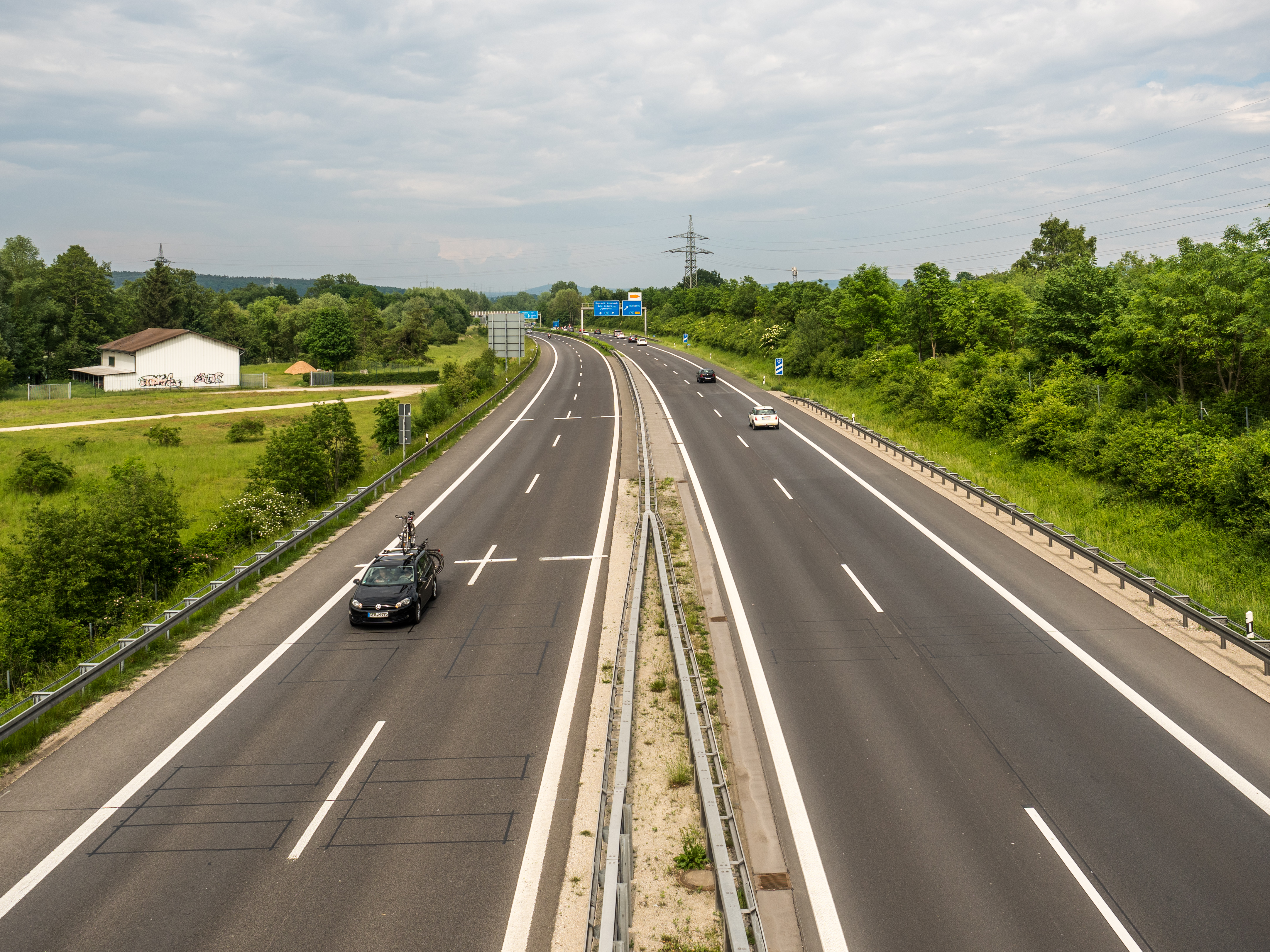 Motorway A70 towards Schweinfurt at the Interchange Bamberg